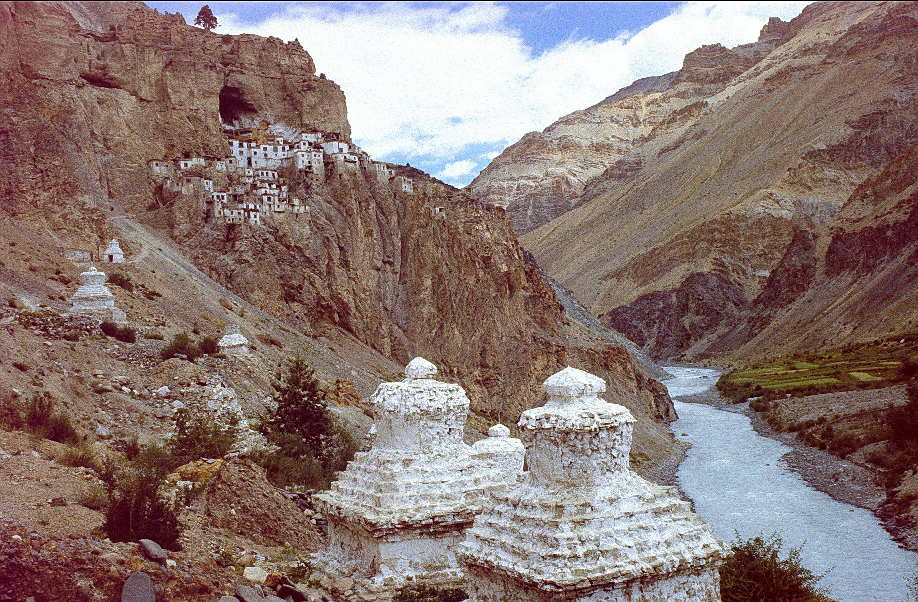 The monastery (gompa) of Phuktal, near Tsarap river, Zanskar.